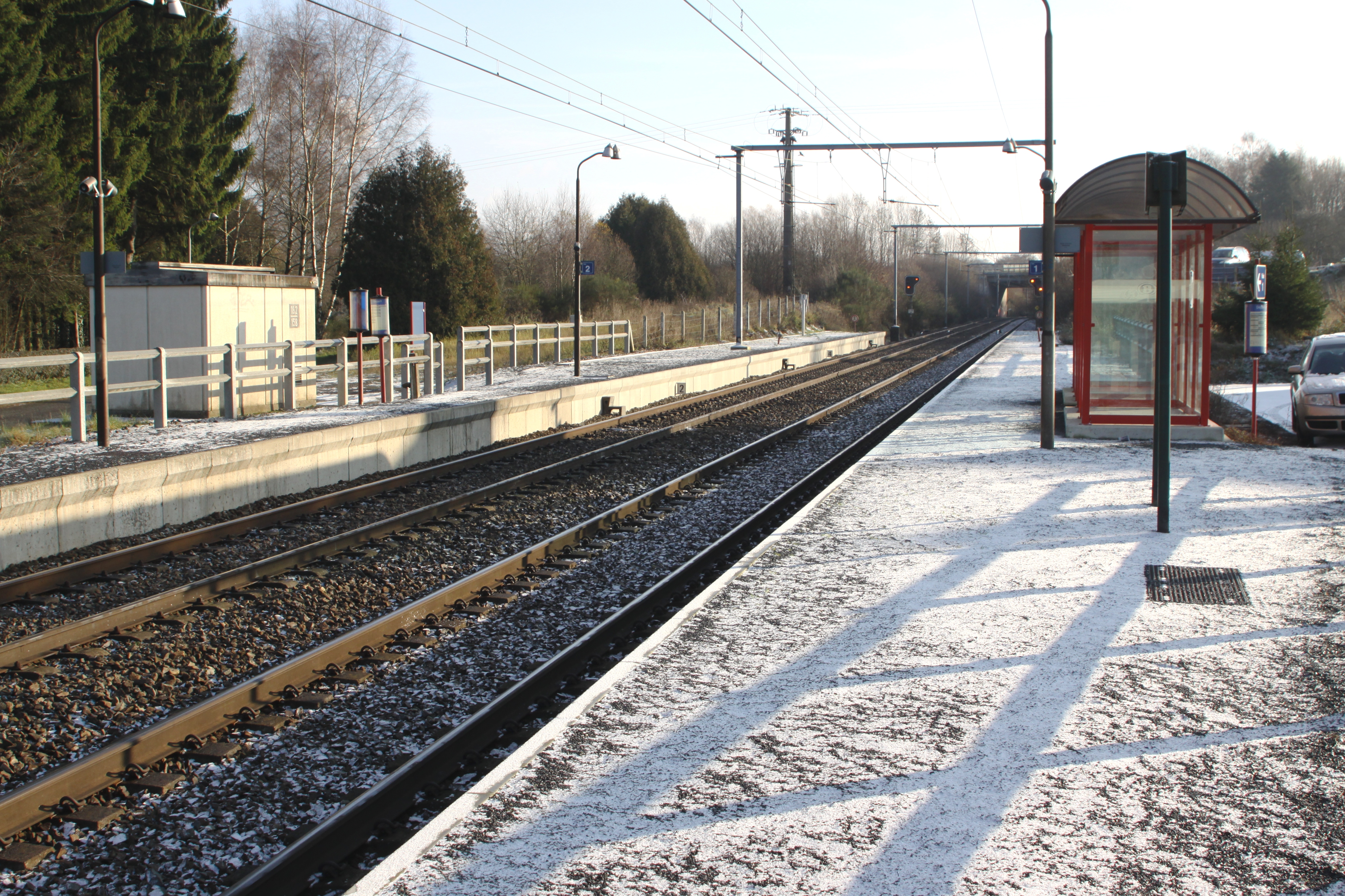 Train station Viville